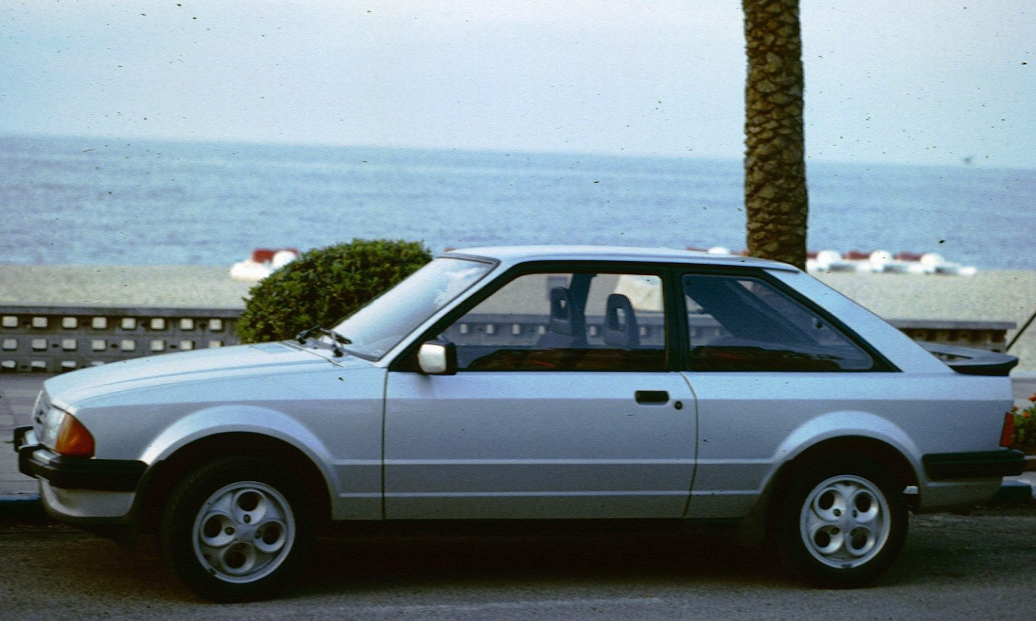 Ford Escort 3 at coast